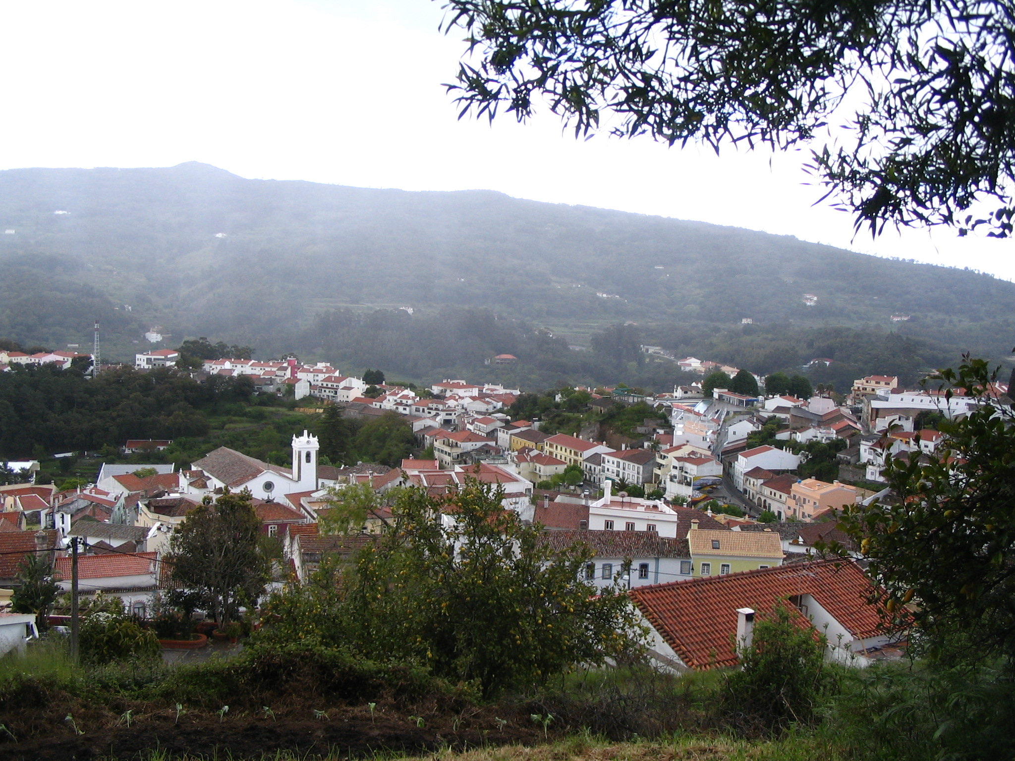 Monchique - Général view looking towards the south west across the town from Caminho do Convento